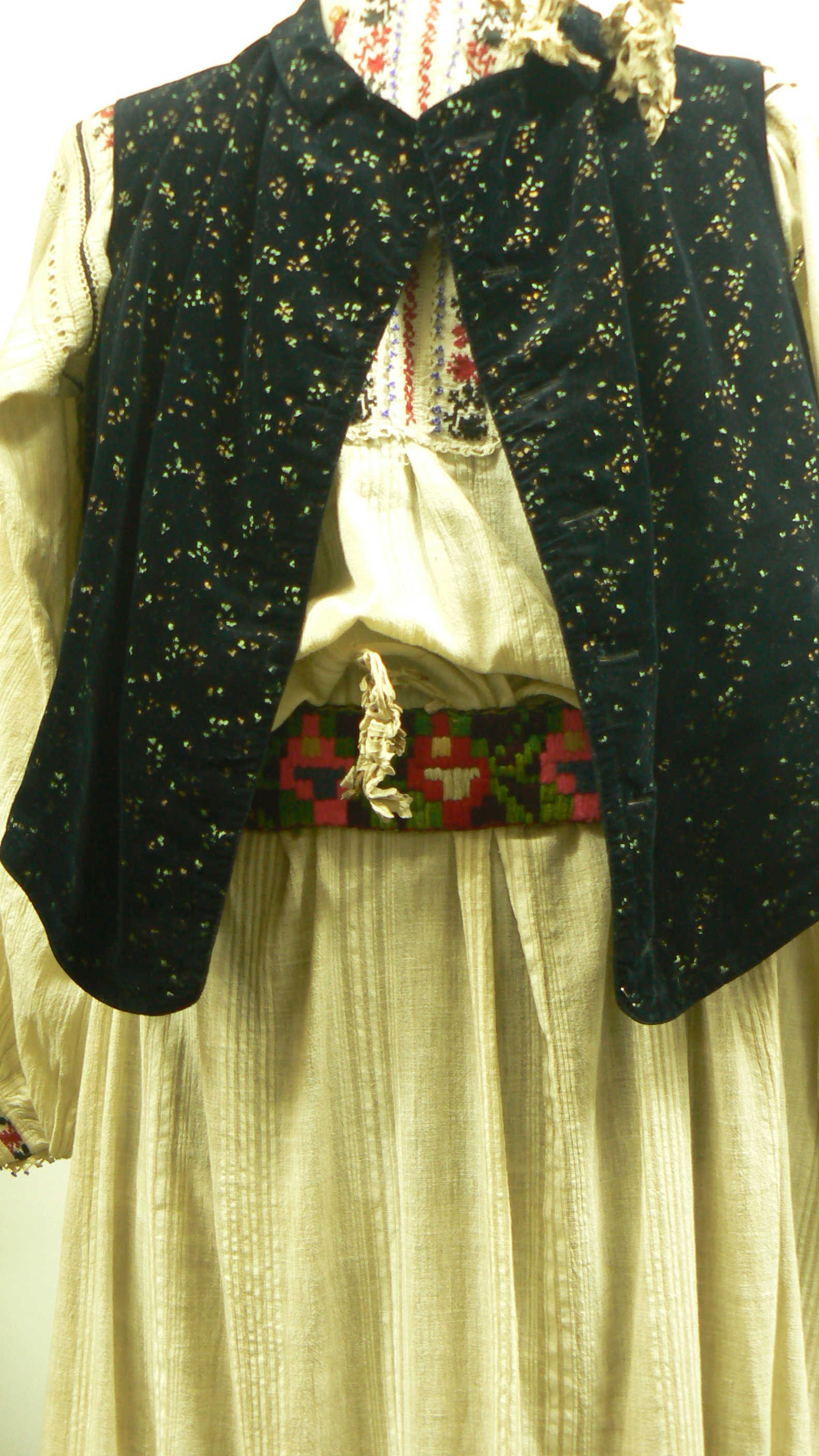 19 century kalushar's male festive costume from Vratsa region. Exhibited in the Ethnographic complex "Saint Sophronius of Vratsa". Vratsa, Bulgaria